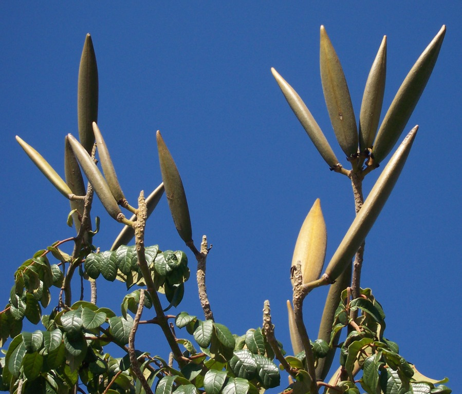 African tulip tree (Spathodea campanulata) - fruits, Réunion island